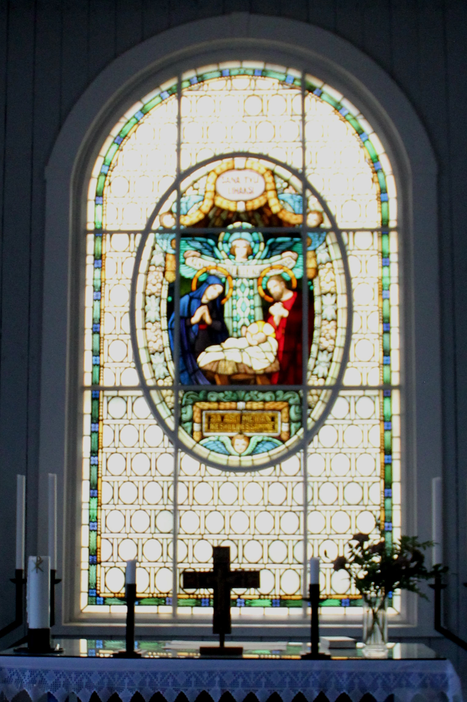 Seimen lapsi (Child in the manger) by Franz Xaver Zettler